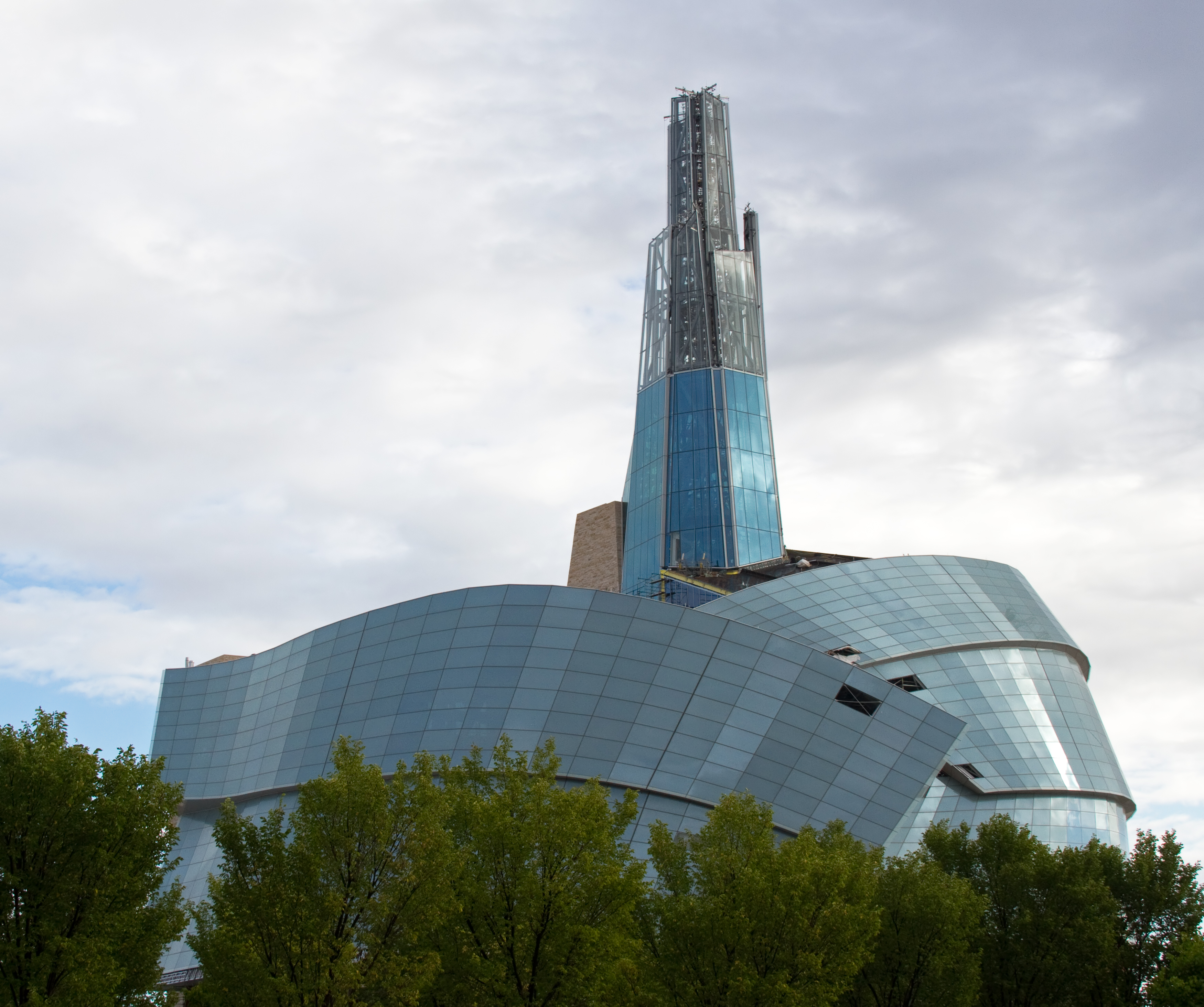 On the Train from Toronto to Edmonton